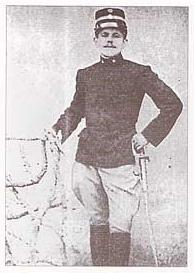 Portrait of greek revolutionary Vasileos Georgios - kapetan Sulios, born in Korcha